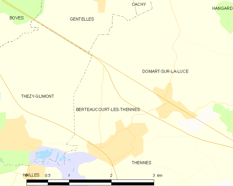 Map of French municipality Berteaucourt-lès-Thennes